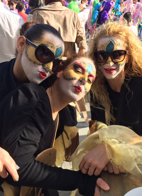 Limassol Parade Street Mascots